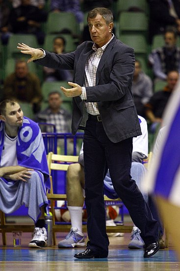 Polish basketball coach Eugeniusz Kijewski